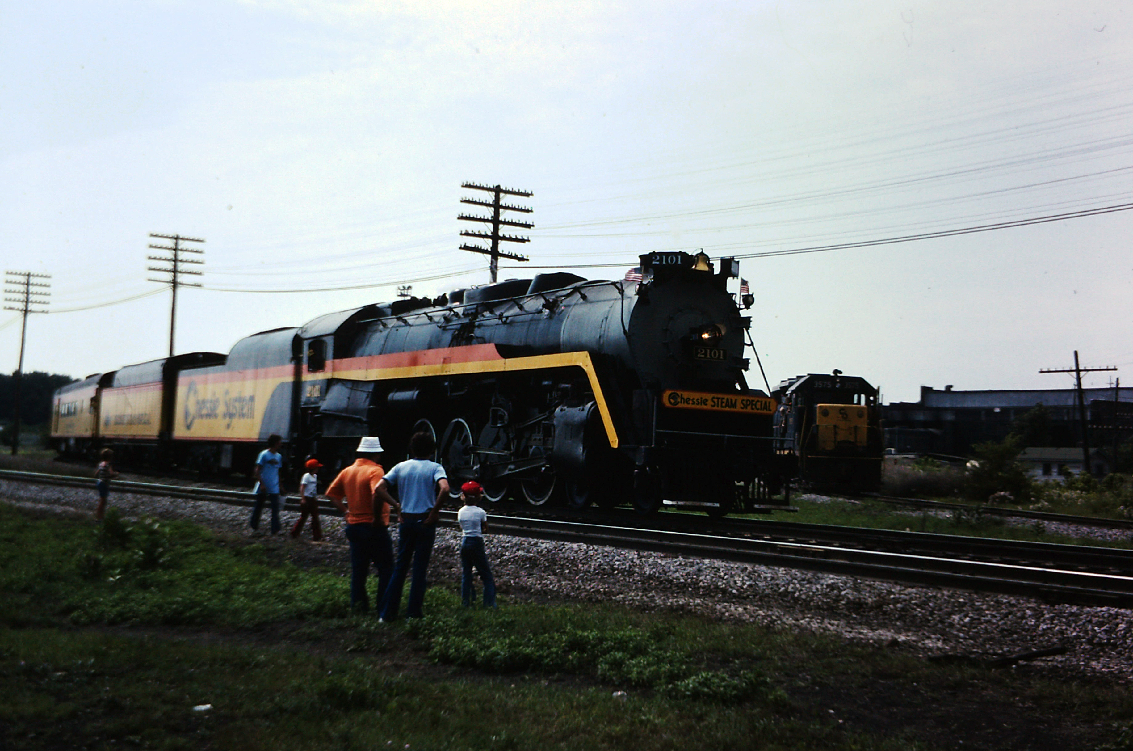 The Chessie Steam Special at Plymouth, Michigan. The train is led by the former Reading Baldwin 4-8-4 #2101. Chesapeake & Ohio EMD GP35 #3575 is visible in the background.